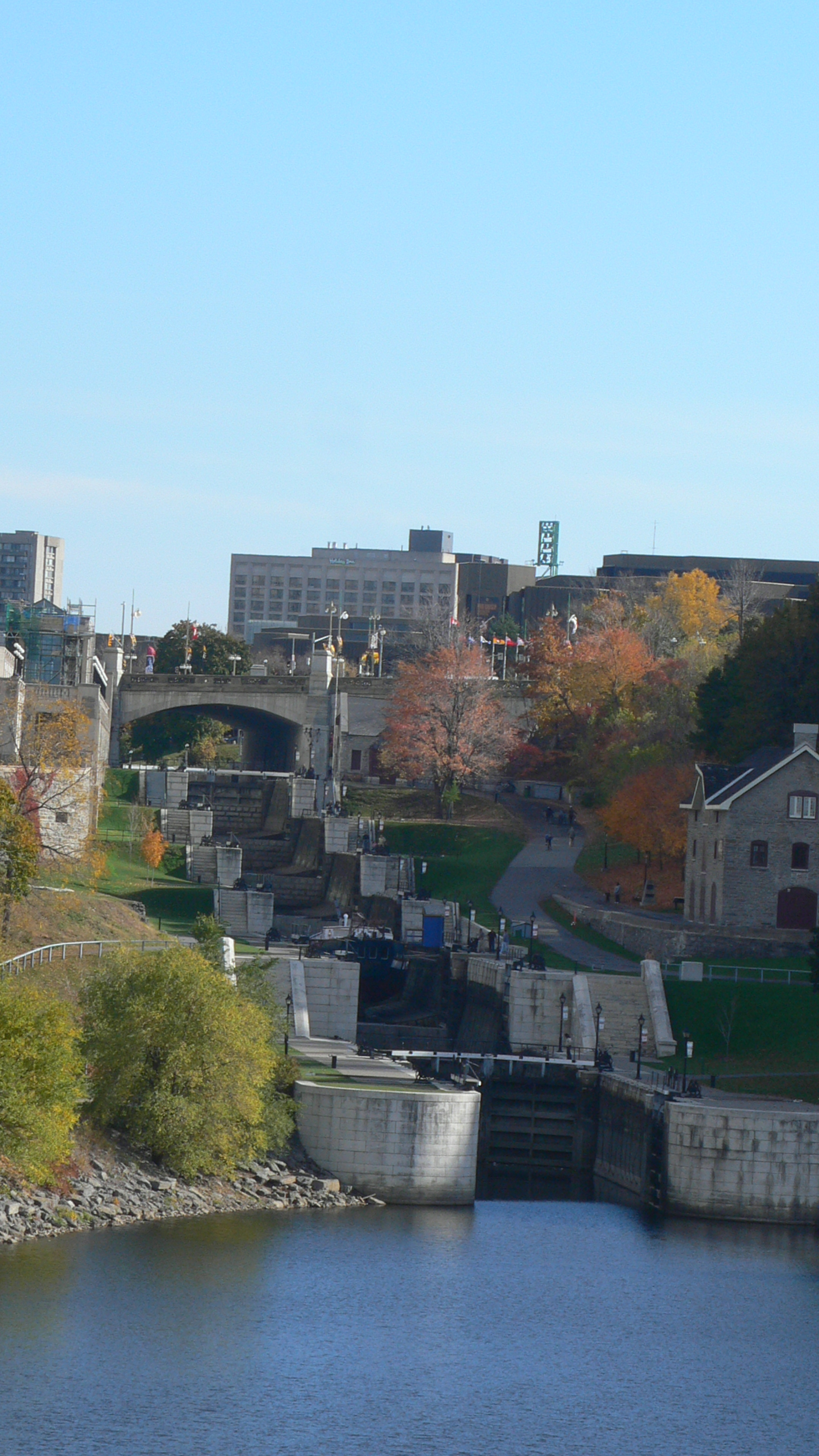 Rideau canal (Ottawa City, Ontario, Canada).